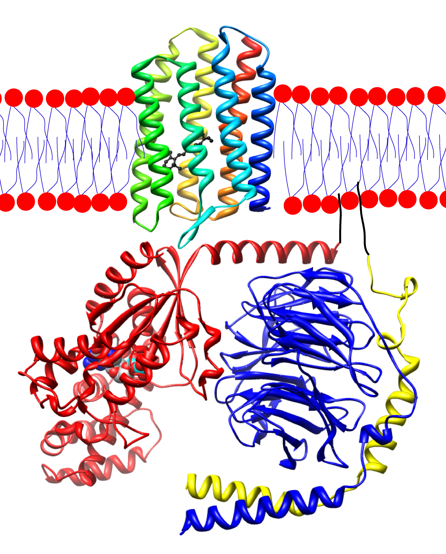 Sensory rhodopsin II (1gue.pdb) embedded in the membrane with transducin (1got.pdb) under it. Rhodopsin is colored in a rainbow with the N-terminus red and the C-terminus blue. There is a bound retinal on the inside that I've colored black for ease of visualization. For the transducin, the Gt-alpha subunit is red, beta is blue and gamma is yellow. I've drawn in pseudo anchoring sites in black. The Gt-alpha subunit has a bound GDP that is colored by atom. The protein structures were created using UCSF chimera and then placed together in adobe illustrator. This illustration is entirely my own using the publicly available pdb data. I'm releasing it into the public domain since I couldn't find any nice illustrations of a rhodopsin and transducin.